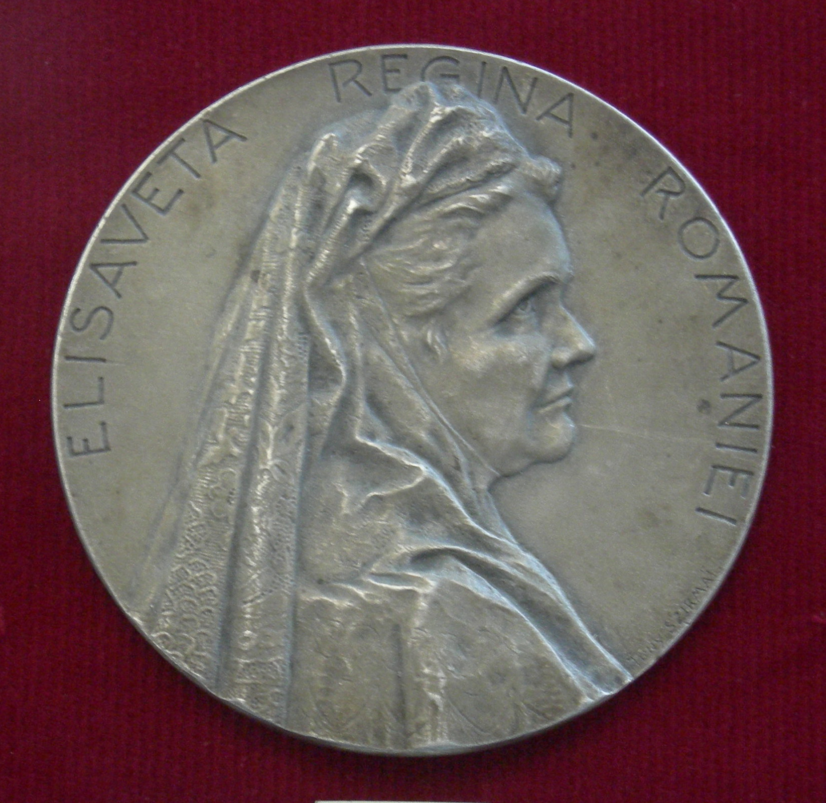 Medal in honor of Queen Elisabeth of Romania (Elisabeth of Wied, consort of Carol I)